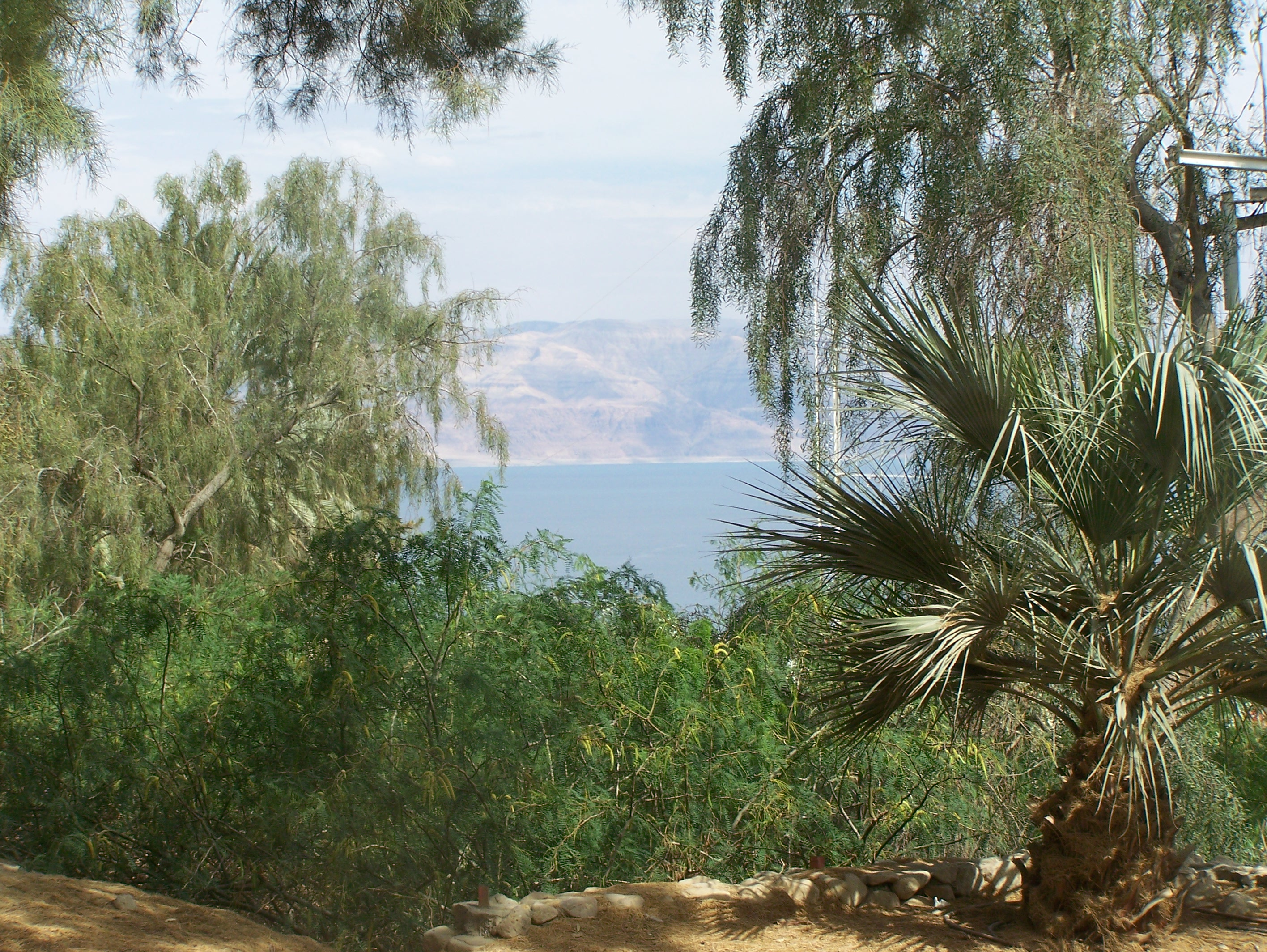 view of the dead sea from Ein Gedi Botanical Gardens